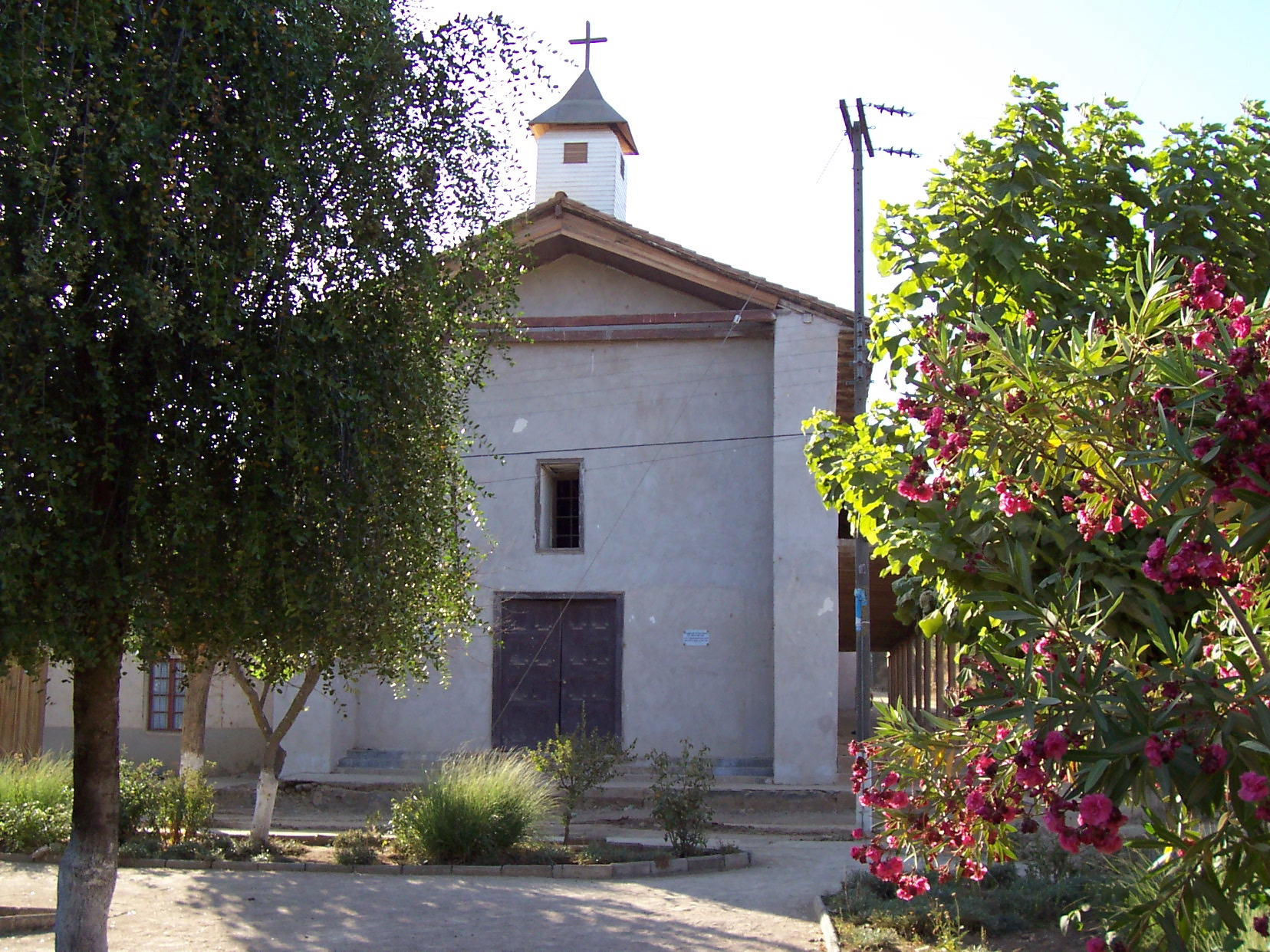 Parish church in the village of Nirivilo, Chile. Picture taken in February 2005. Own work.